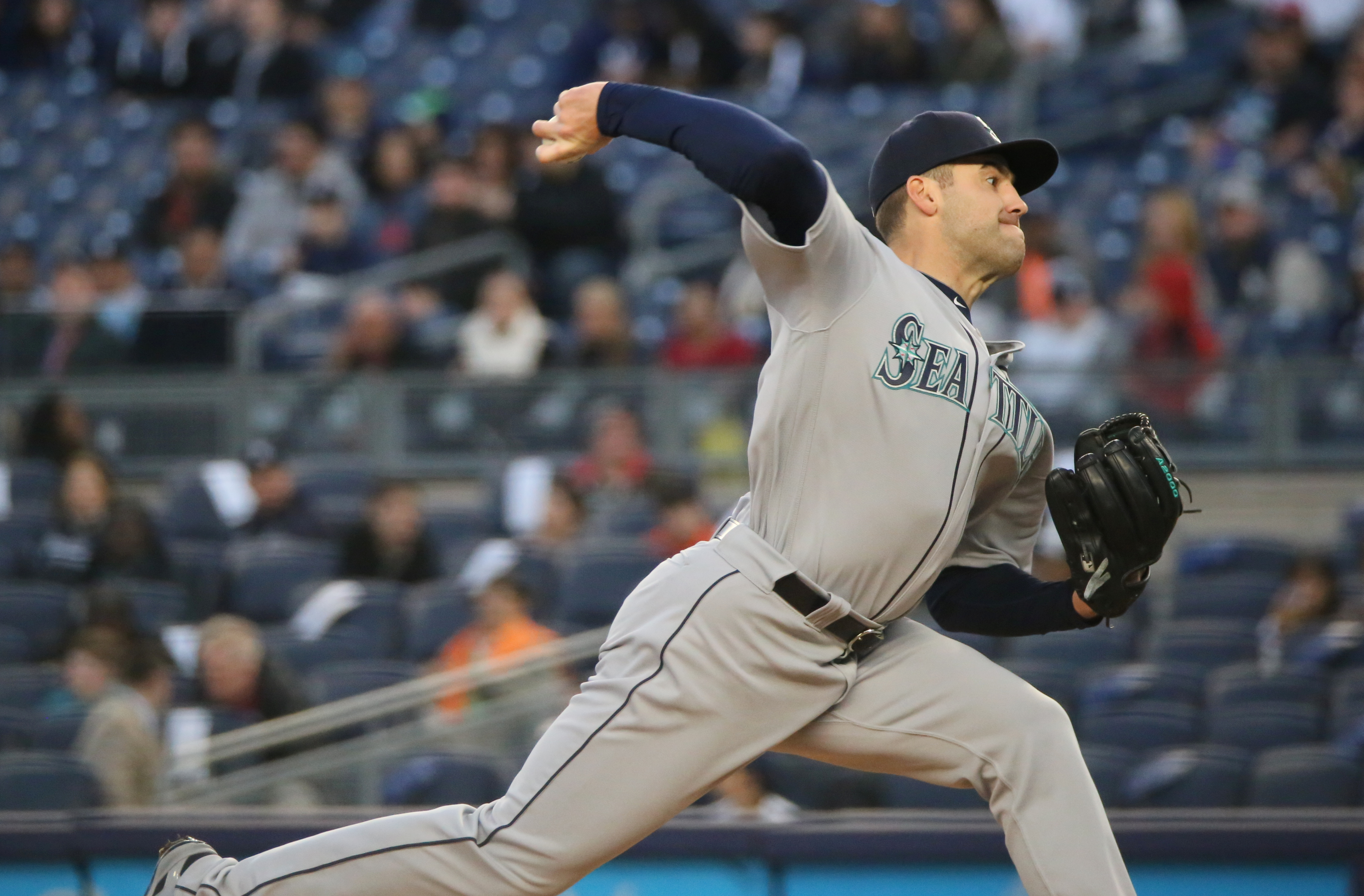 Nathan Karns